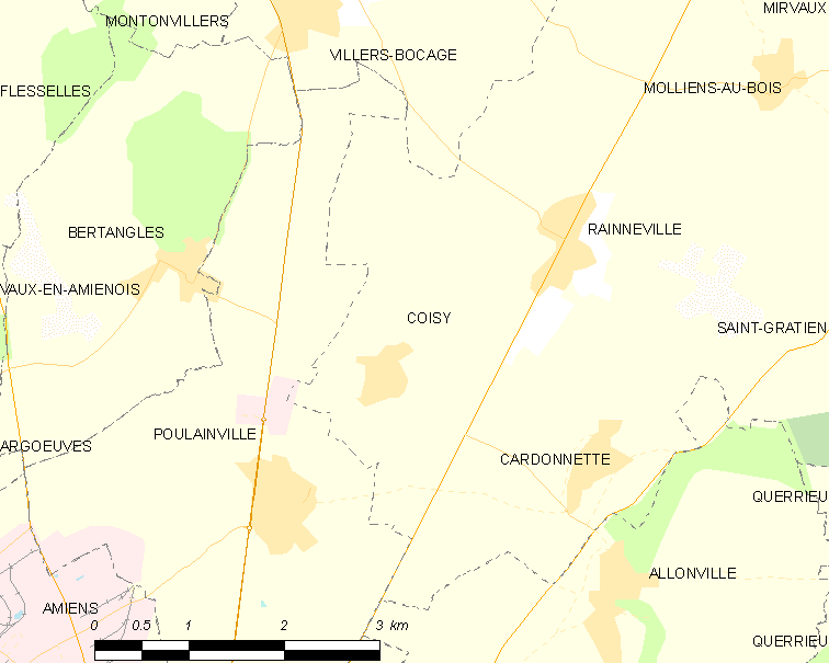 Map of French municipality Coisy